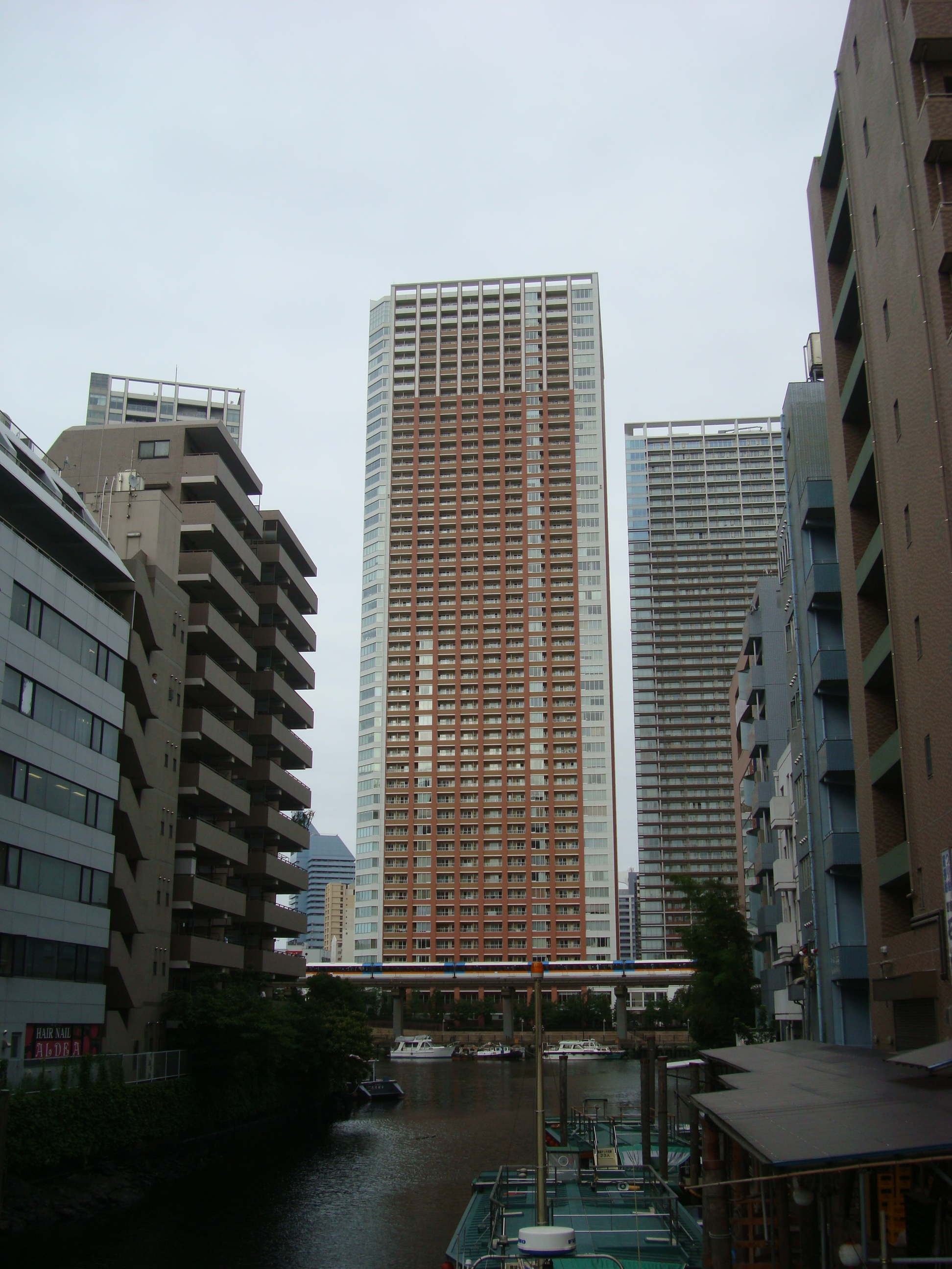 High-rise apartment buildings at the Shibaura Island viewed from Shin-shiba Minami canal